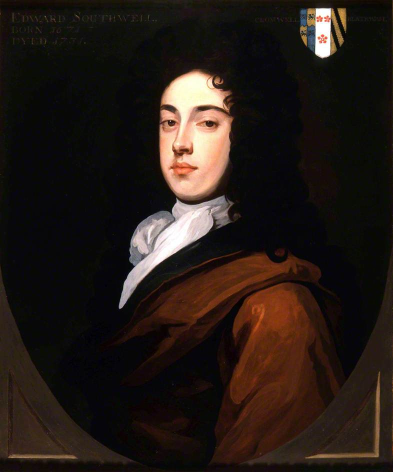 Portrait of Edward Southwell